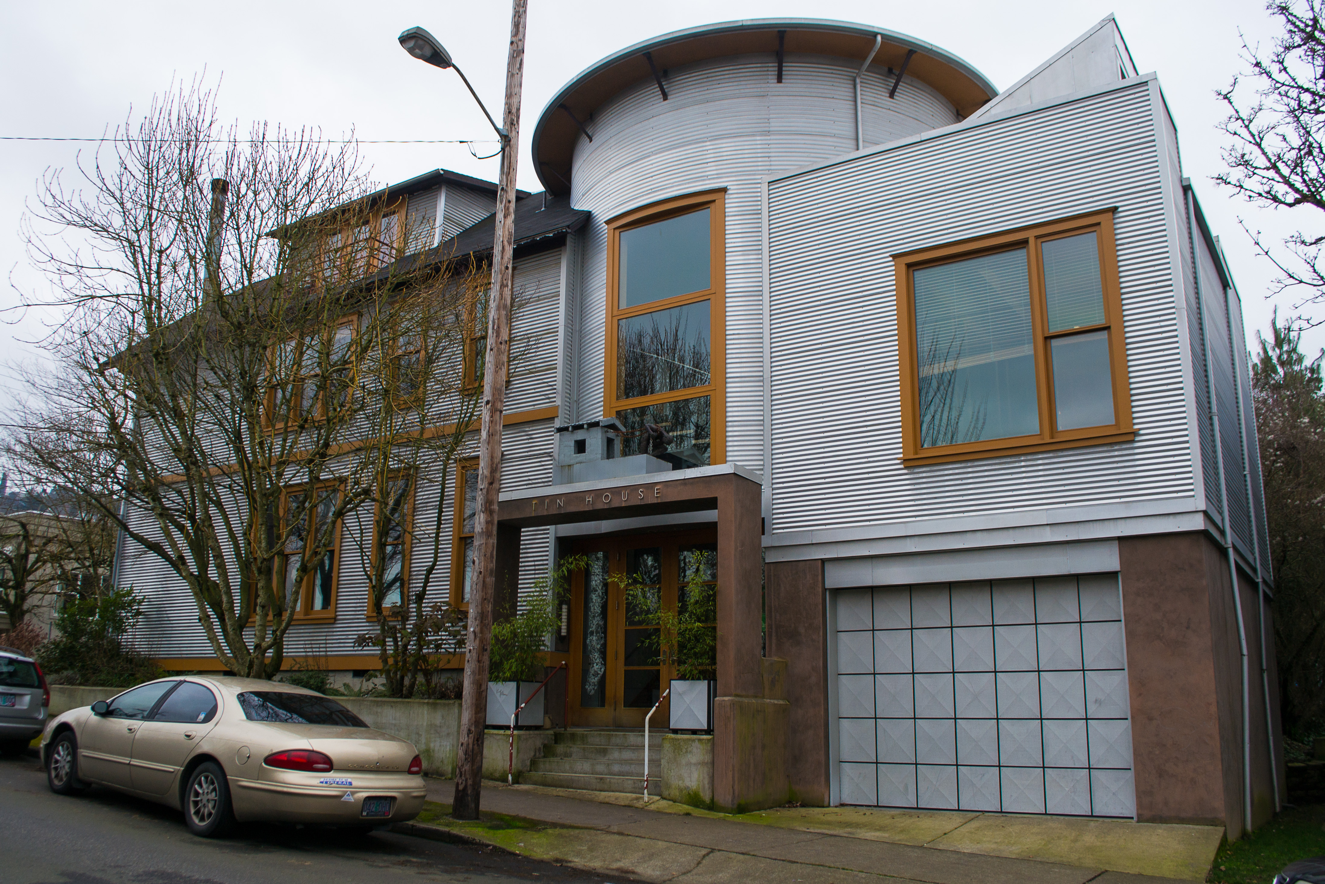 Tin House publishes a literary magazine and books.